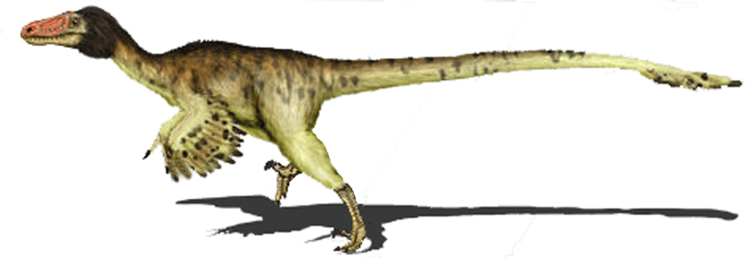 Adasaurus